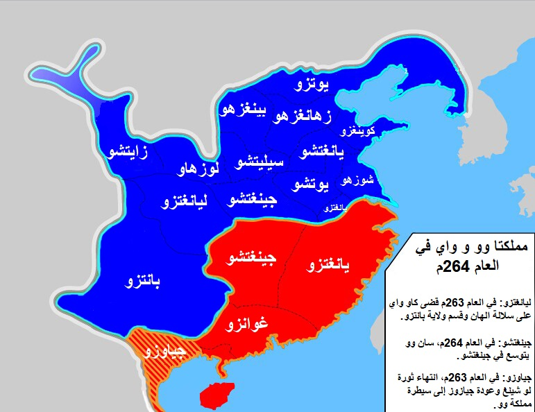 The Map of political divisions in China in the year 264 AD.